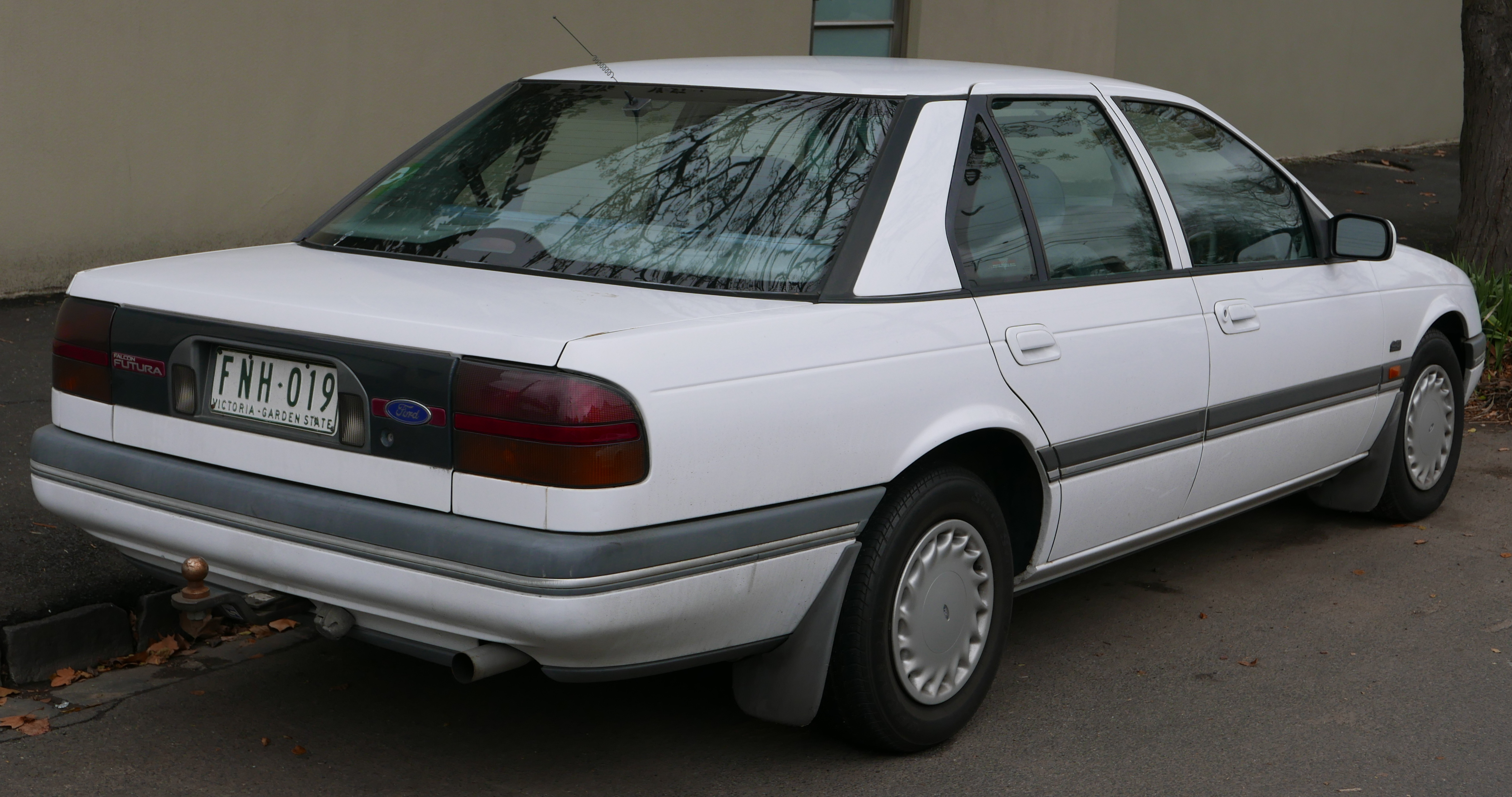 1994 Ford Falcon (ED) Futura sedan. Photographed in Fitzroy North, Victoria, Australia. Vehicle registration enquiry results Jurisdiction Victoria Registration FNH019 Chassis code 6FPAAAJGSWRY75456 Engine code JGSWRY75456 Compliance date 1994-02 Year of manufacture 1994